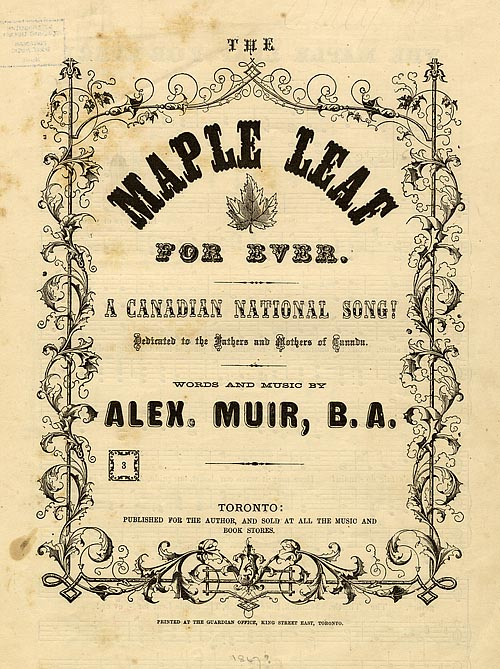 The cover to the sheet music to the Canadian patriotic song "The Maple Leaf Forever". Composed in 1867 by Alexander Muir. This is one of the original 1,000 copies of the song that Muir had printed in 1868.